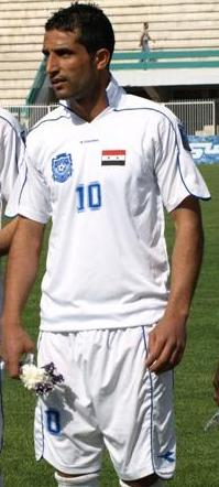 Mohamed Al Zeno - Syrian football player